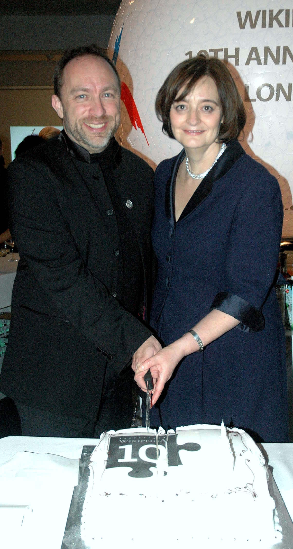 Cherie Blair and Jimmy Wales cutting anniversary cake for Wikipedia 10th birthday.